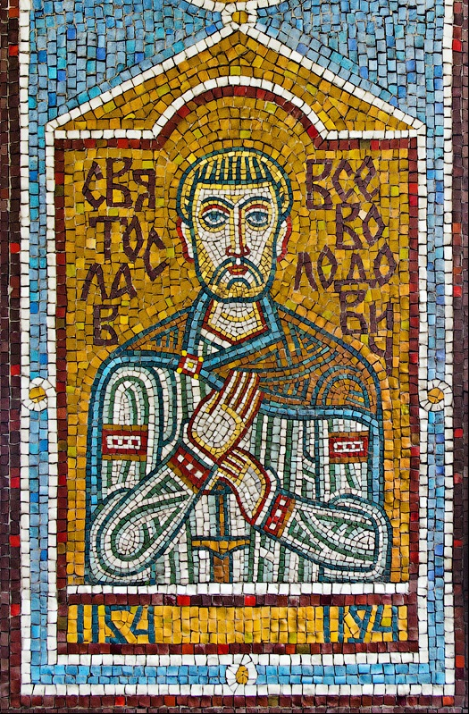 Mosaic of Sviatoslav III (r.1174-1194)